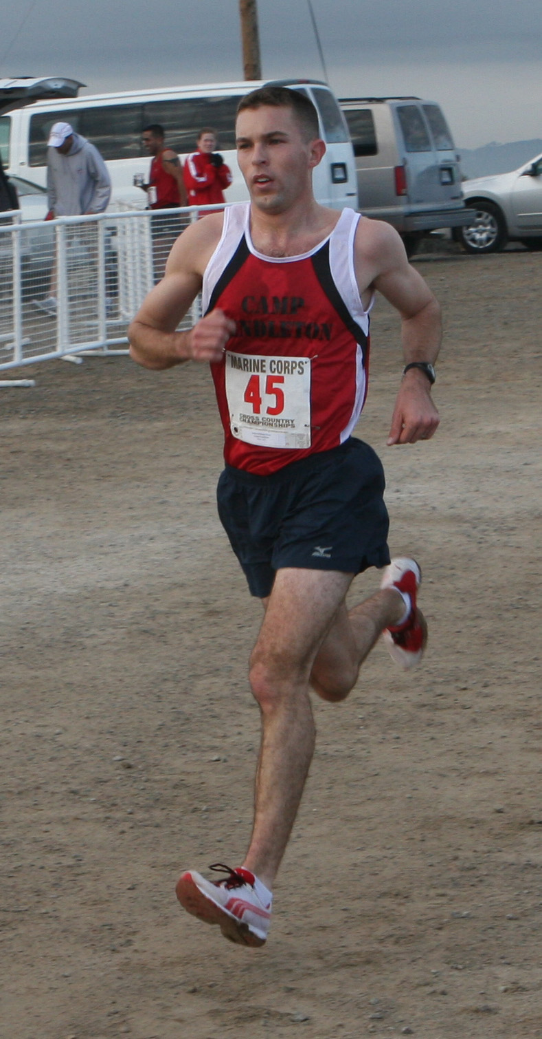 Crew Cut Marine Lieutenant and 2008 Naval Academy Cross Country Team Captain wins All-Marine Cross Country Championship, MCAS Miramar, California, Jan. 8, 2011. Original caption: "2nd Lt. William Prom, an artillery training officer with 11th Marine Regiment, Marine Corps Base Camp Pendleton, crosses the finish line in 1st place during the All-Marine Cross Country championship race here Jan. 8. Prom finished the 5-mile course in 26:36."